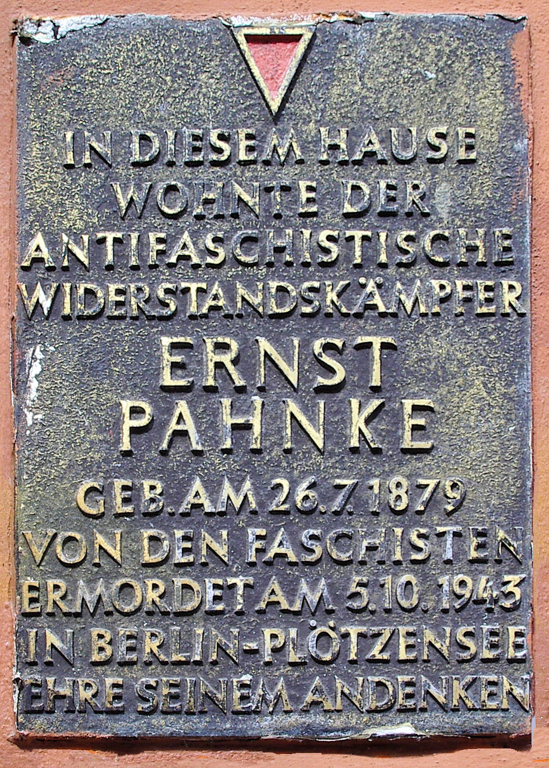 Memorial plaque, Ernst Pahnke, Rigaer Straße 94, Berlin-Friedrichshain, Germany Koordinate:52°31′4″N 13°27′29″E / 52.51778°N 13.45806°E